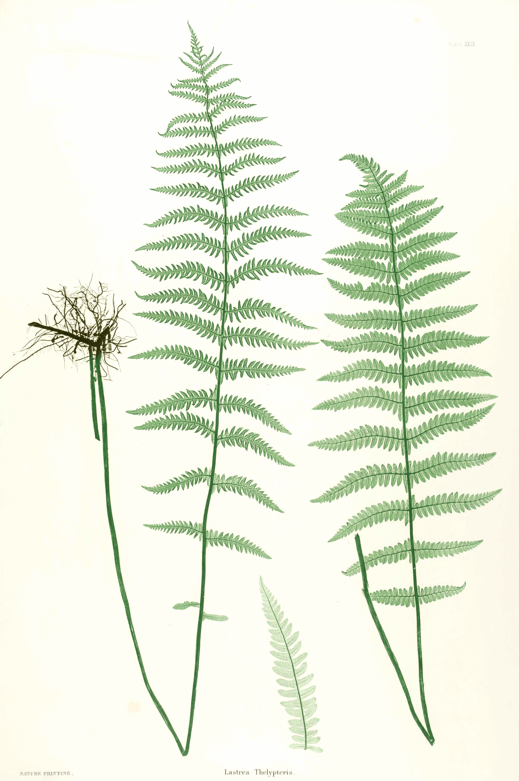 Plate from book